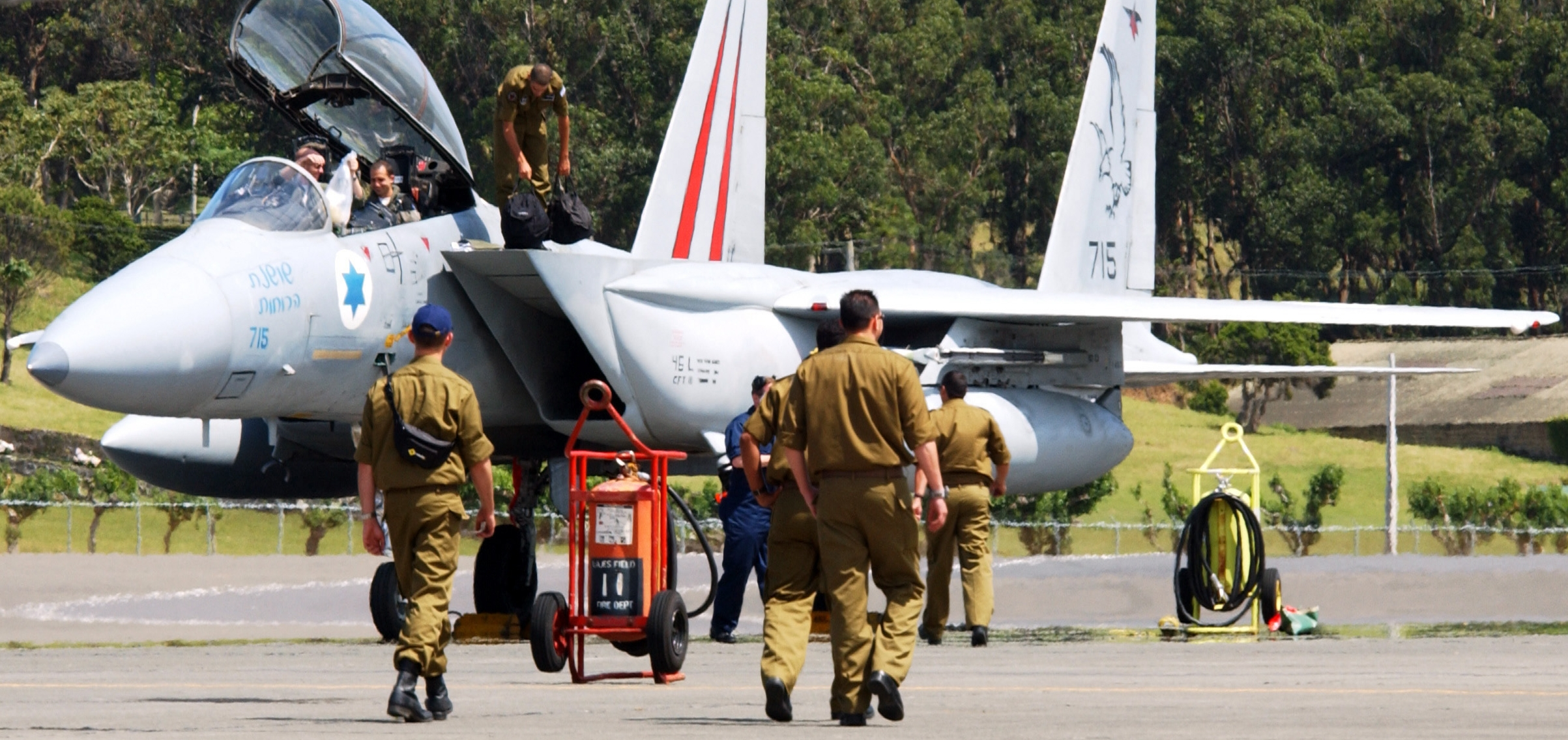 Israeli Air Force maintainers approach their F-15D fighter aircraft to perform post-flight checks at Lajes Field, Azores, Portugal (PRT), upon arrival. The crews are resting at Lajes Field before continuing their trip to Mountain Home Air Force Base (AFB) Location: LAJES FIELD, AZORES PORTUGAL (PRT)